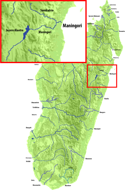 Description of river Maningori